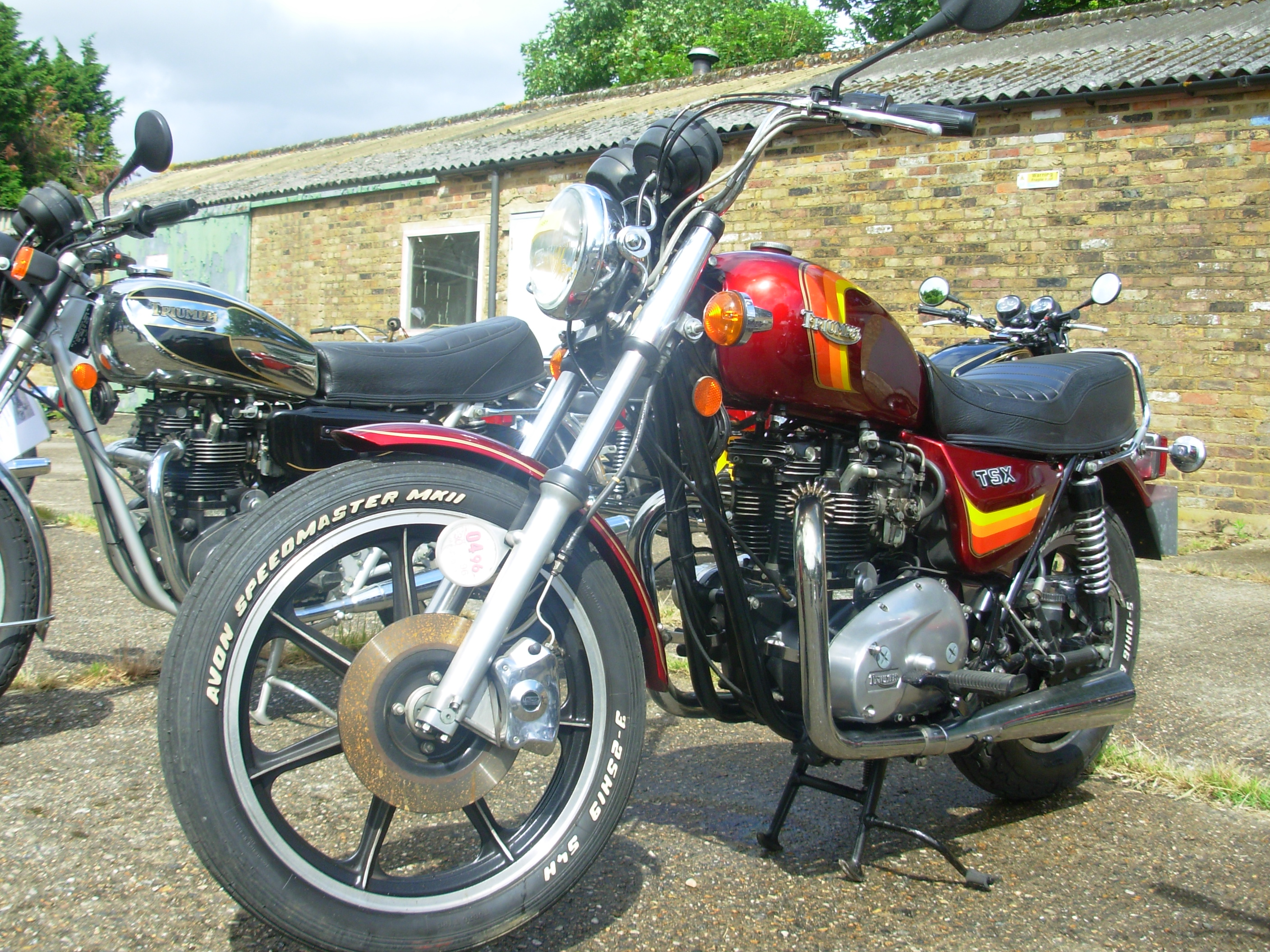 taken at the London Motorcycle Museum 2008